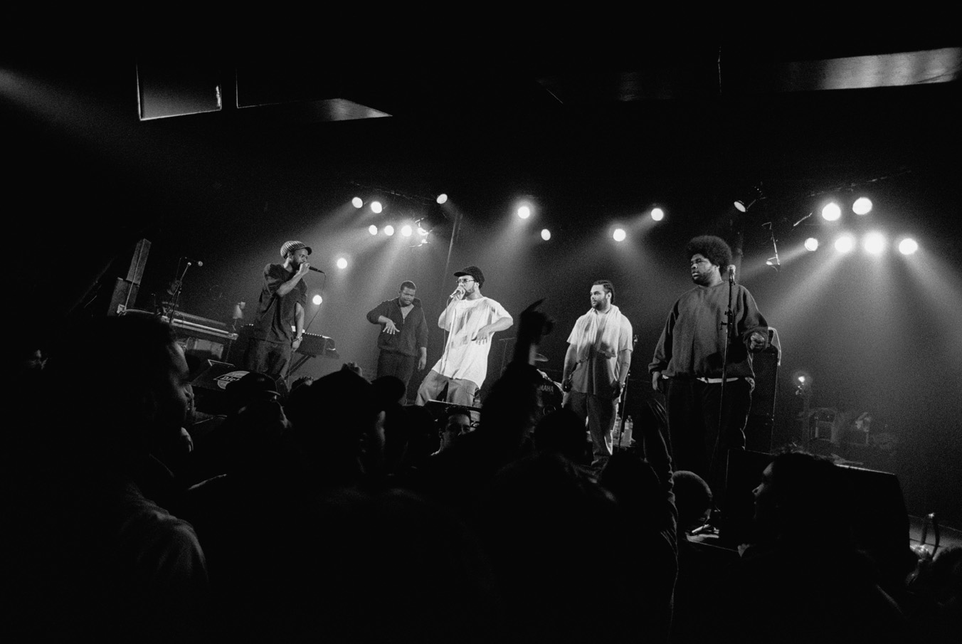 Grosse Freiheit Hamburg/Germany